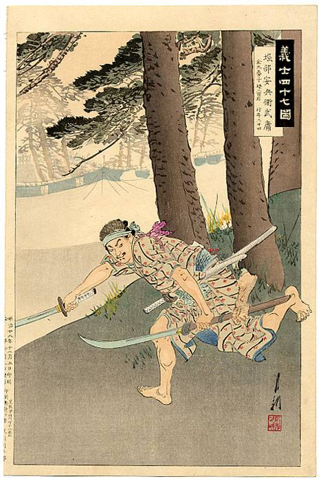 Ronin are masterless samurai. Chushingura is the true story of 47 samurai who became masterless in 1701, after their lord had been forced to commit ritual suicide (seppuku) for assaulting a court official who had insulted him. They avenged him by killing the court official after patiently planning for over a year. They were themselves then forced to commit seppuku.